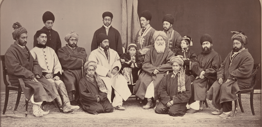 A photograph of the family of Dost Mohammad Khan in 1879